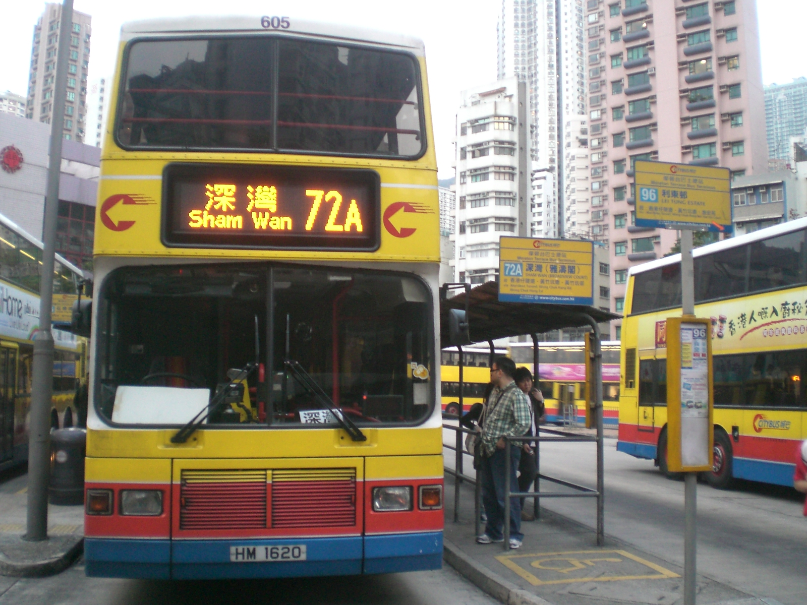 Citybus terminus, Moreton Terrace, Tai Hang, Causeway Bay, Hong Kong.